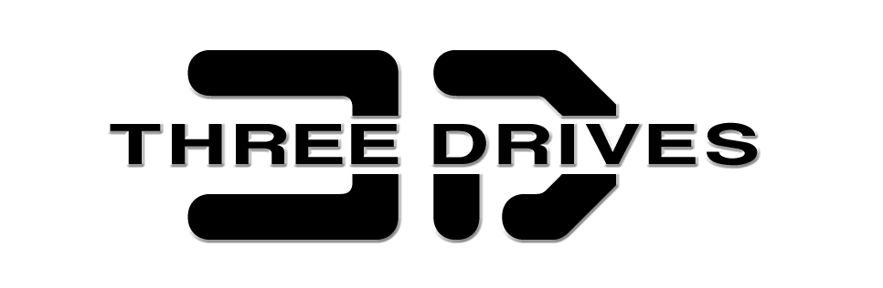 Logo Three Drives